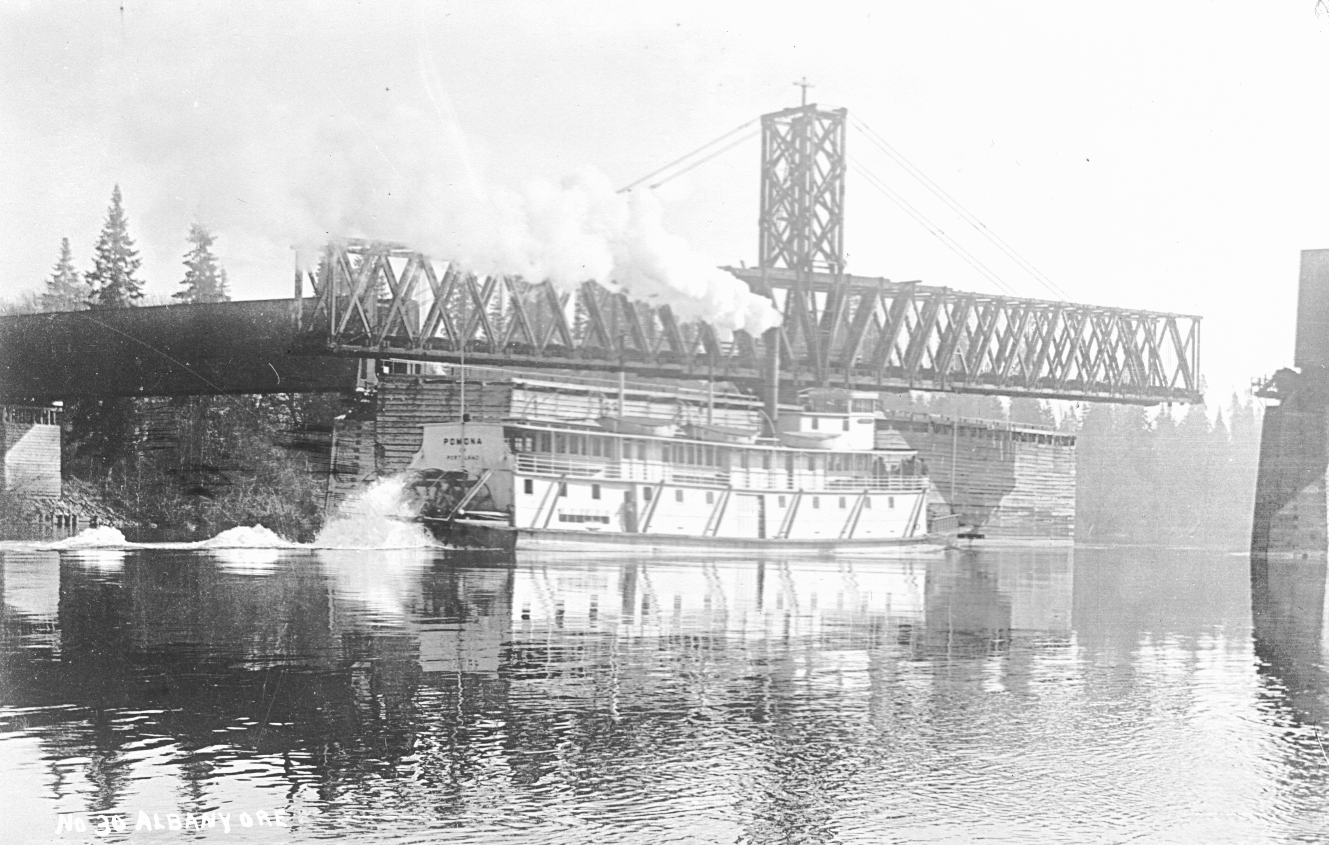 Description/Notes: The Steamwheeler Pomona is passing under the Corvallis & Eastern railroad bridge at Albany, Oregon. Original Collection: Gerald W. Williams Collection You can find this image by searching for the item number by clicking here. Want more? You can find more digital resources online. We're happy for you to share this digital image within the spirit of The Commons; however, certain restrictions on high quality reproductions of the original physical version may apply. To read more about what “no known restrictions” means, please visit the Special Collections & Archives website, or contact staff at the OSU Special Collections & Archives Research Center for details.